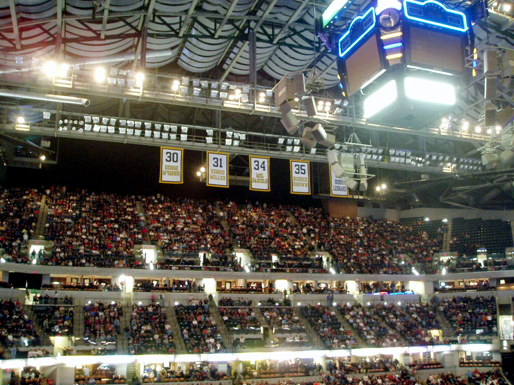 ....okay, so I'm getting bored while waiting, but at least I'm not at the BMV anymore, er, listening to that crappy warm-up band which left me very cold.